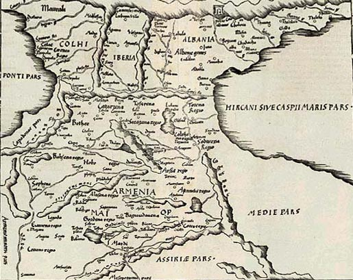 Ancient Armenia and other countries on old map - 1522 y